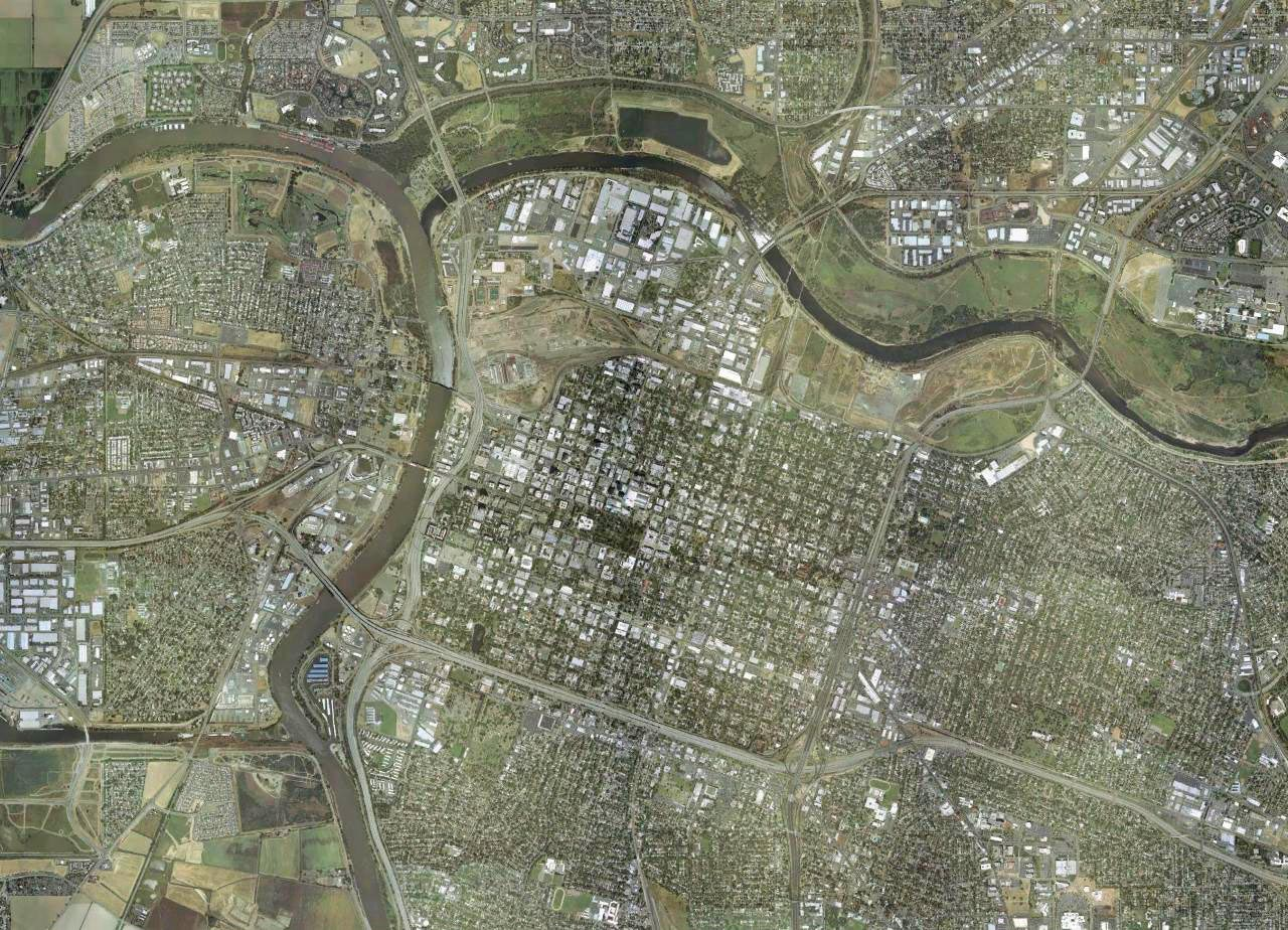 Sacramento, California from the air.